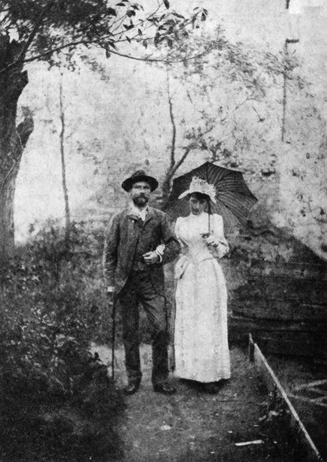 Writers Růžena Čápová and František Xaver Svoboda before their marriage, summer 1890.